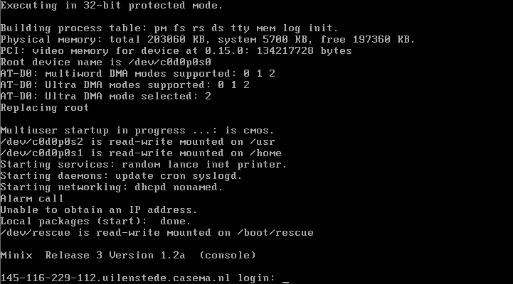 Screenshot of MINIX 3.1.2a